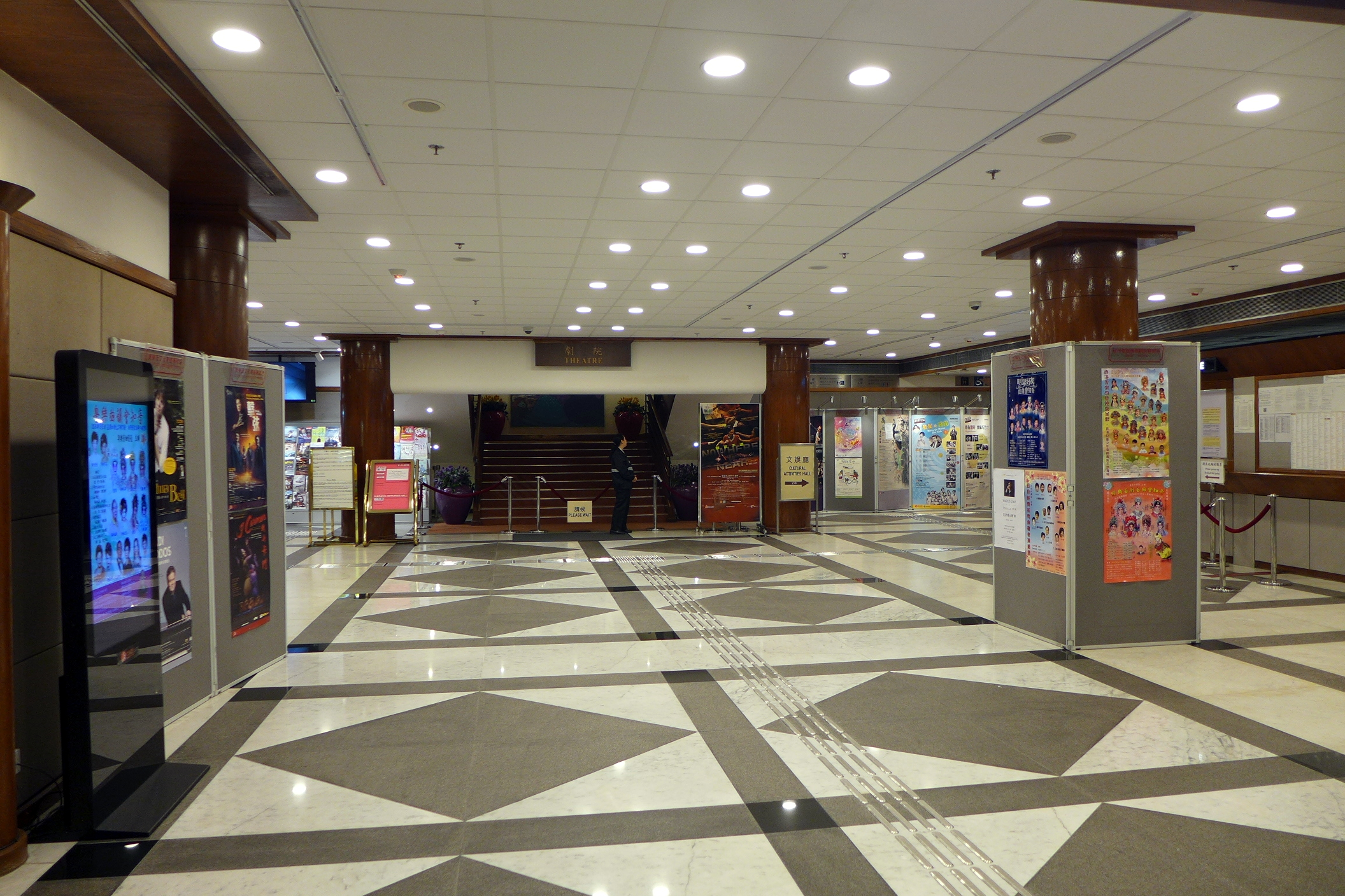 Sai Wan Ho Civic Centre Lobby